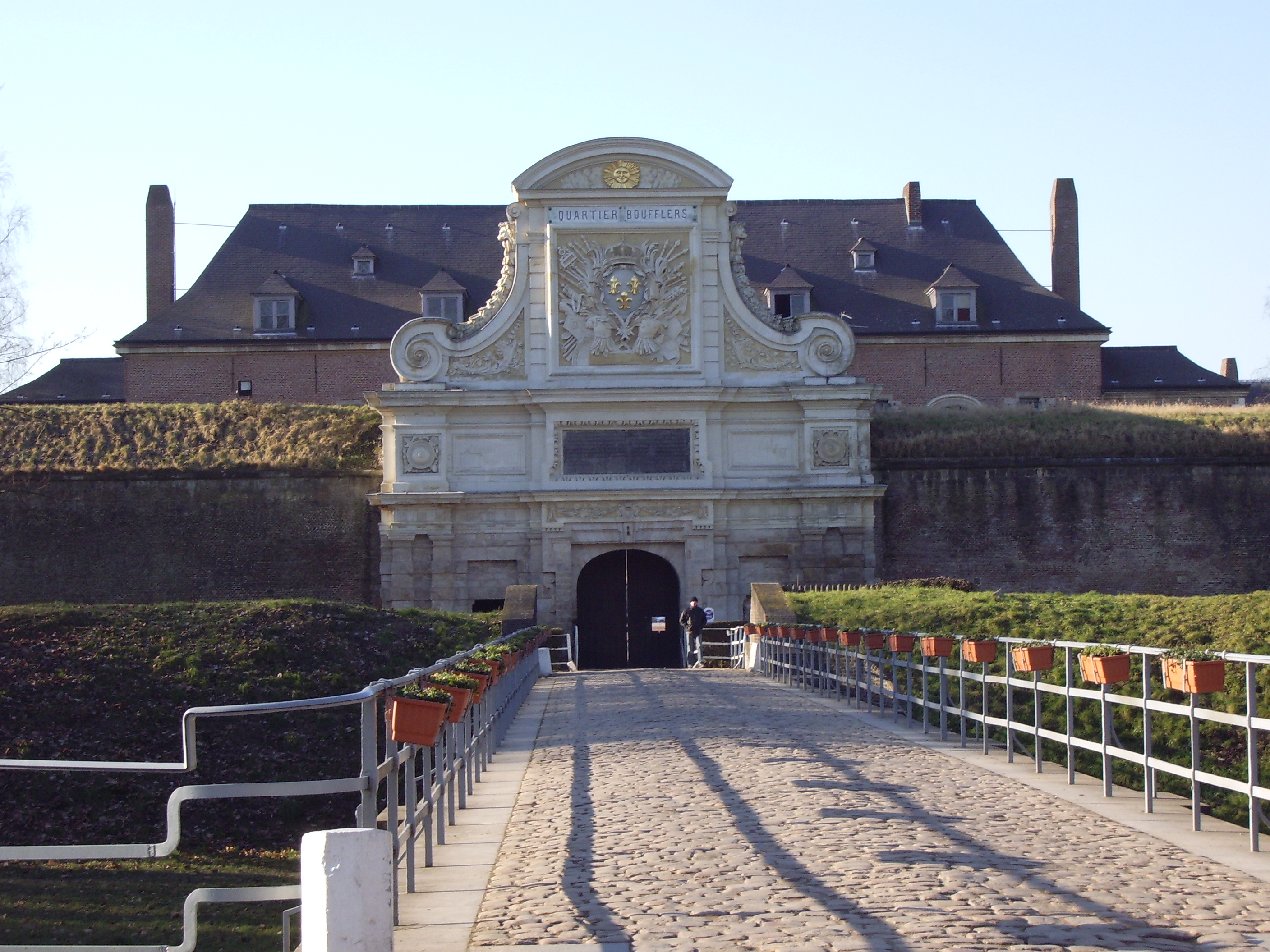 Lille : Entrance of the "Vauban Citadelle" (17th century)